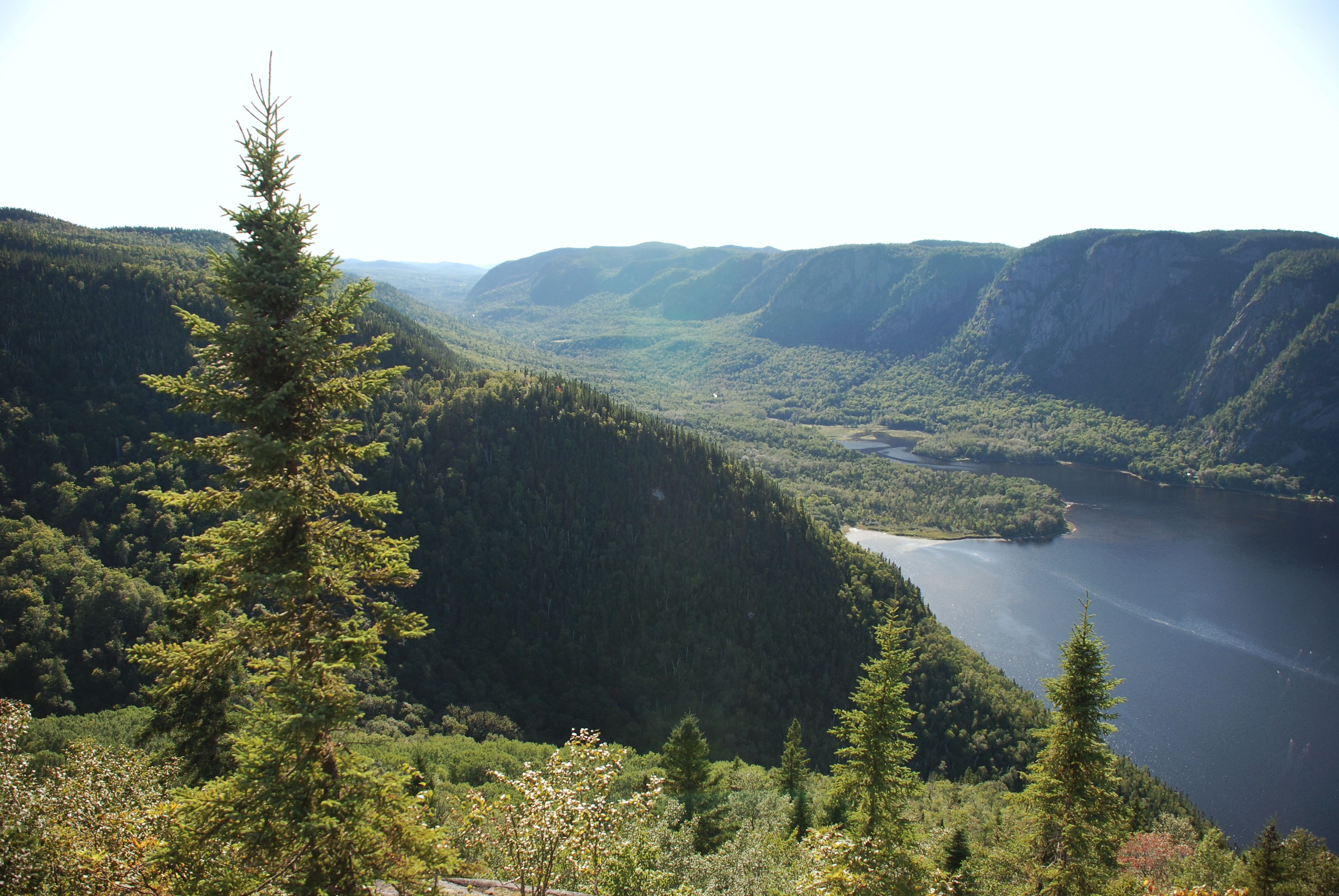 Baie-Eternité, seen from cape Éternité, fjord of Saguenay, Quebec, Canada.